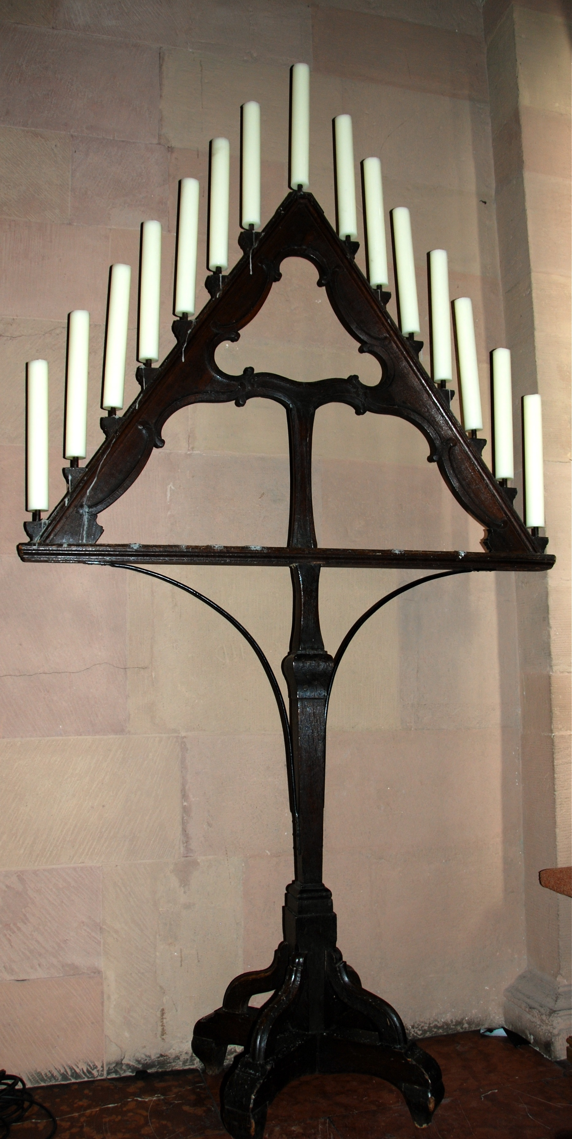 Tenebrae "hearse" (candelabrum) used during Holy Week, Mainz Cathedral